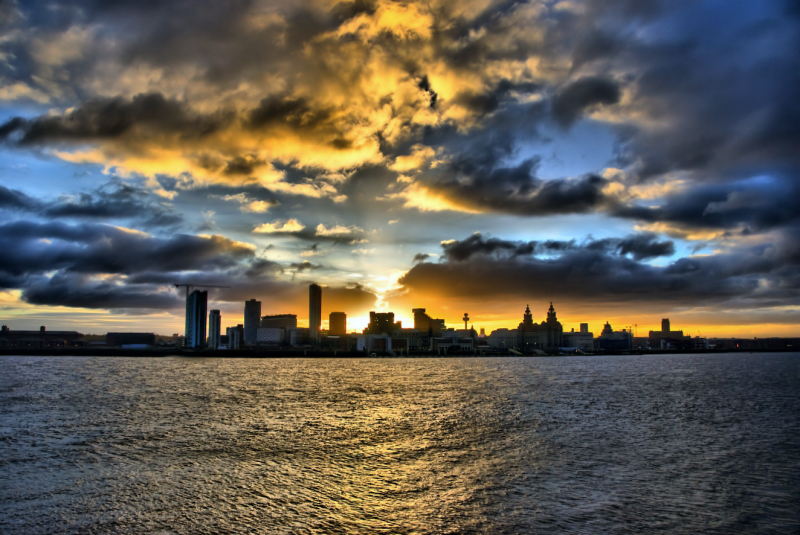 Liverpool Waterfront at Sunrise - Dave Wood, Liverpool Pictorial Source: I created this work entirely by myself. Author: Scouserdave